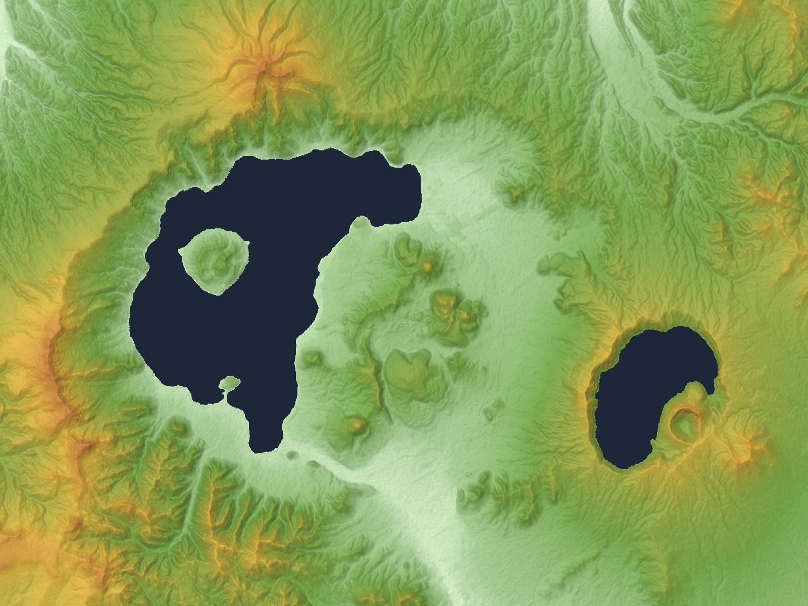 Kussharo Caldera (left) & Mashu Caldera (right) in Hokkaido, Japan.